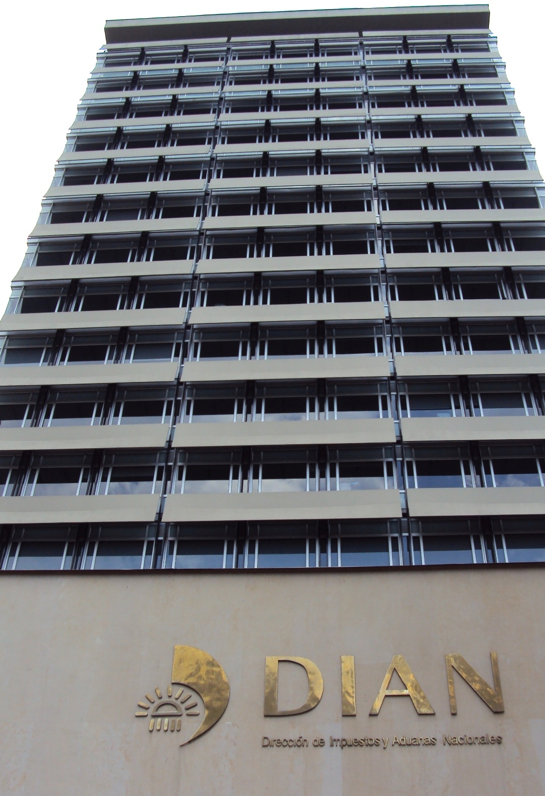 Offices of the DIAN in Bogotá near Santander Park